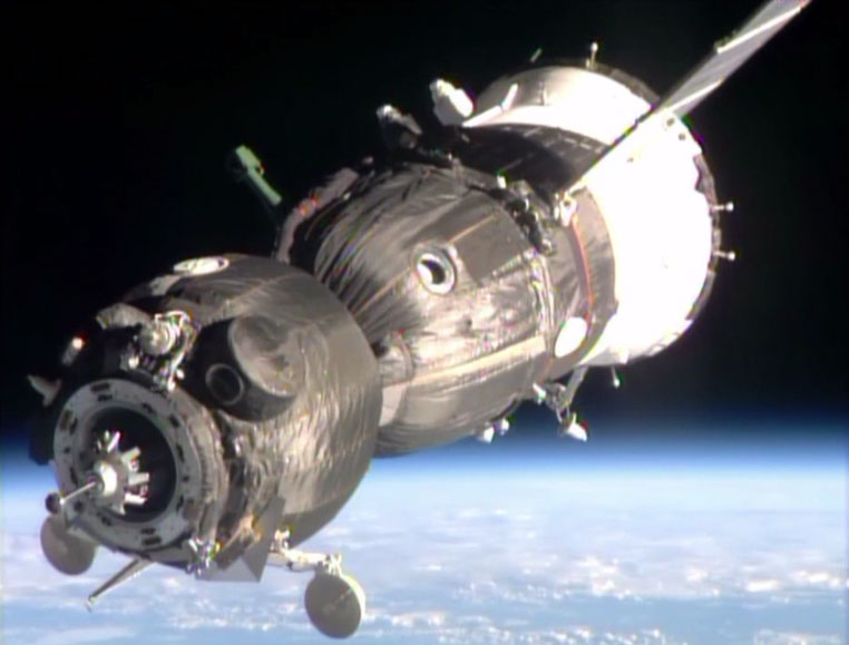 The Soyuz TMA-11M spacecraft with Earth in the background is just moments away from docking to the Rassvet module.